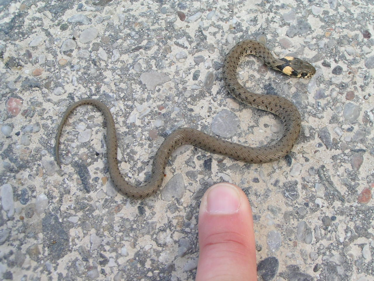 Baby Natrix Natrix, seen on a street in Lower Austria